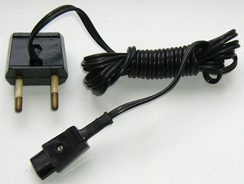 Soviet shaver power cord. Thermoplastic plug is rated for 6A 250V.